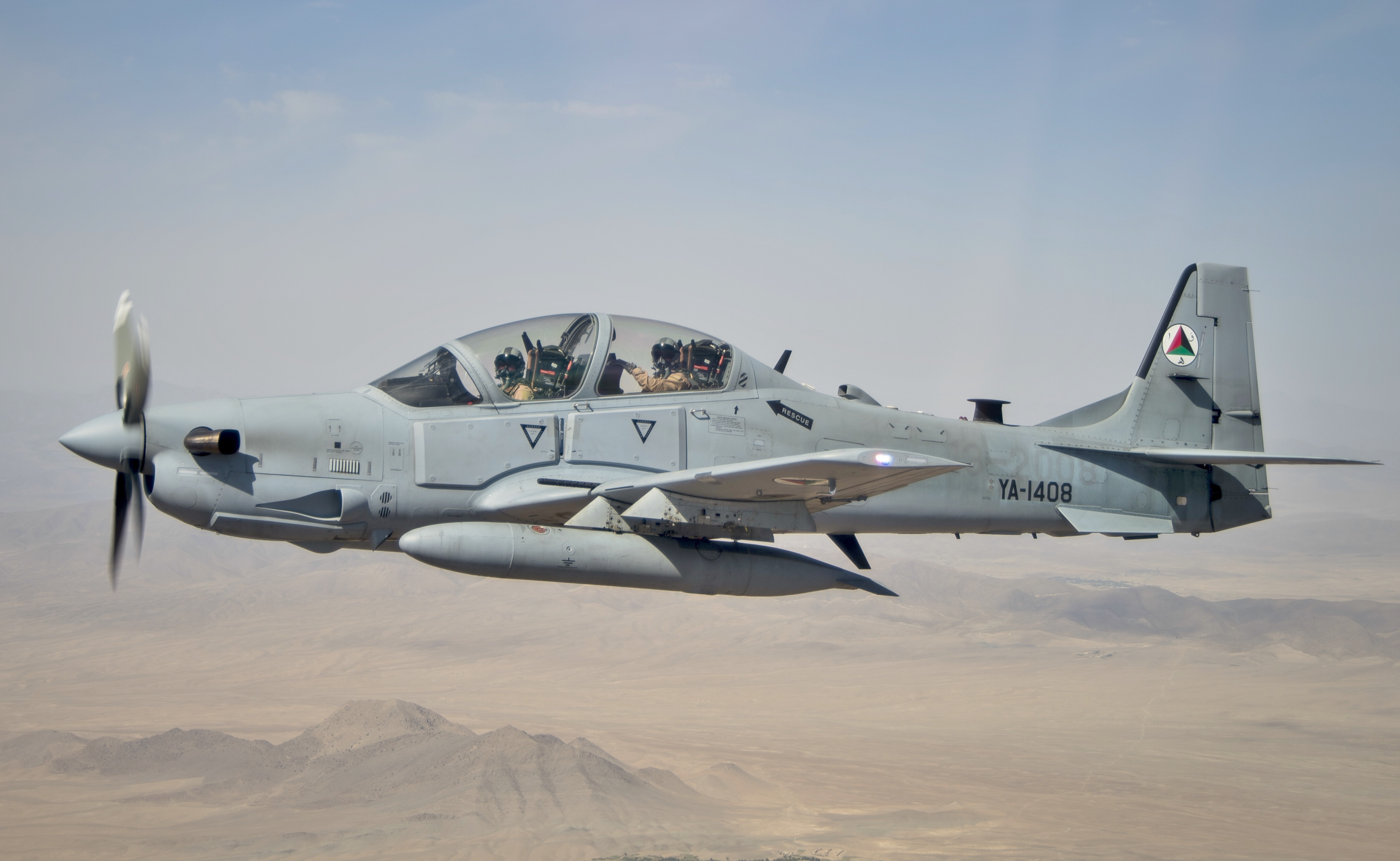 An Afghan Air Force A-29 Super Tucano soars over Kabul, Afghanistan, Aug. 14, 2015. The A-29 is the Afghan Air Force's latest attack airframe in their inventory. (U.S. Air Force photo/Staff Sgt. Larry E. Reid Jr., Released)